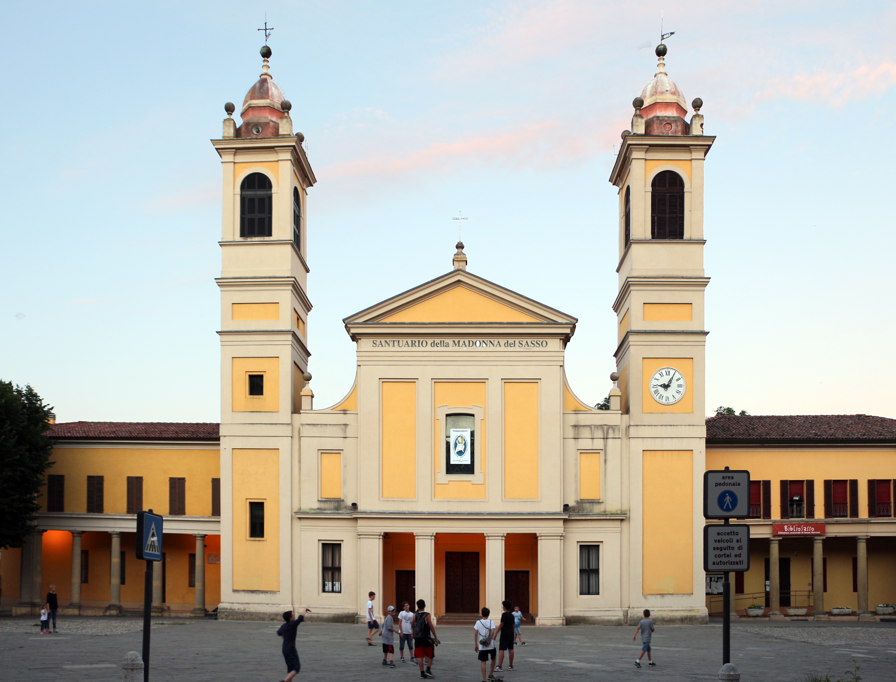 Sasso Marconi